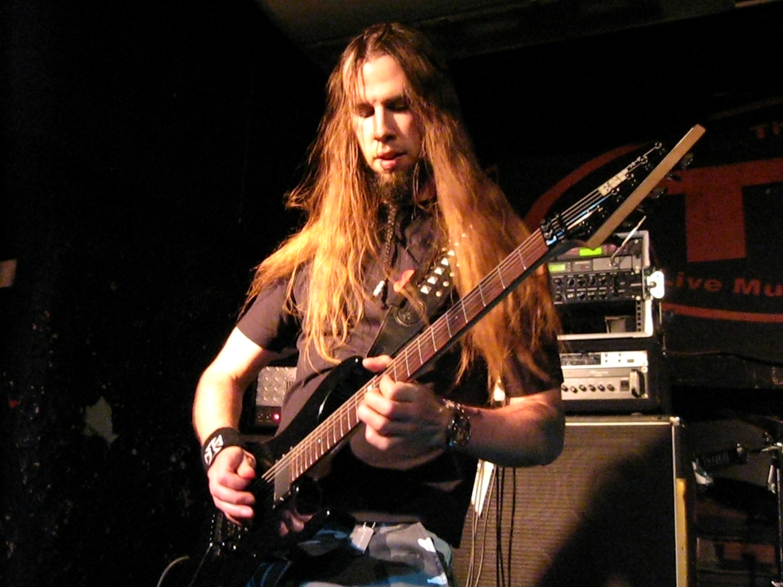 Oskar Montelius of Sabaton, May 18, 2007